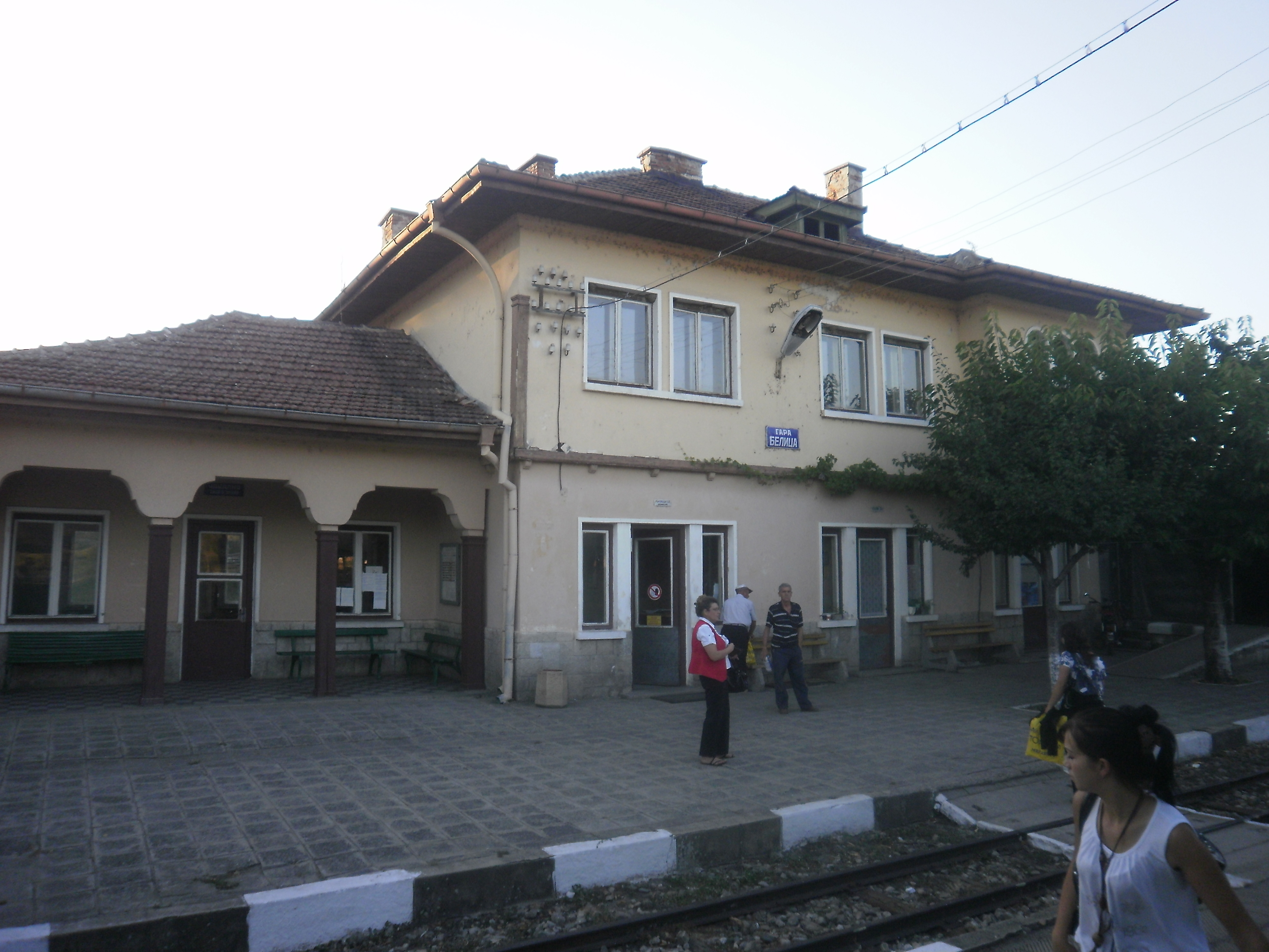 Belica station, Bulgaria.